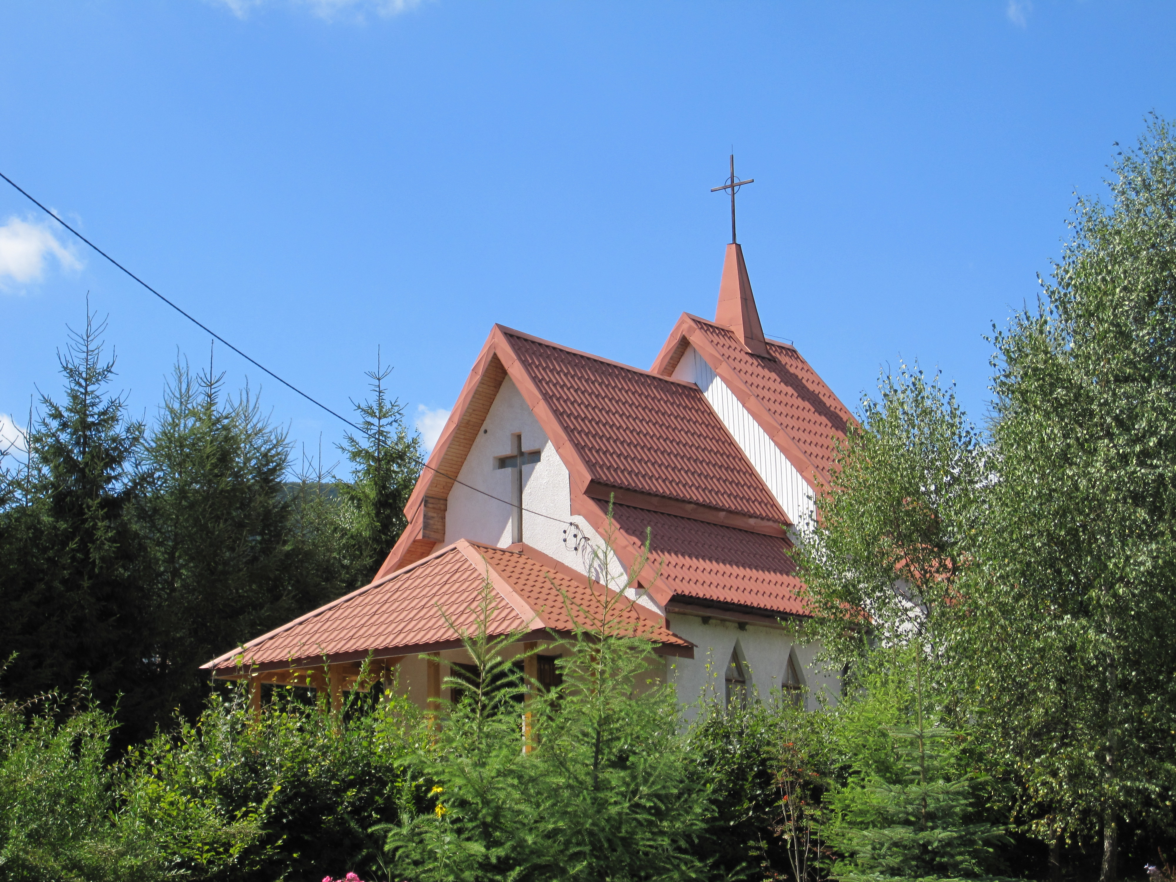 Church in Przysłup village